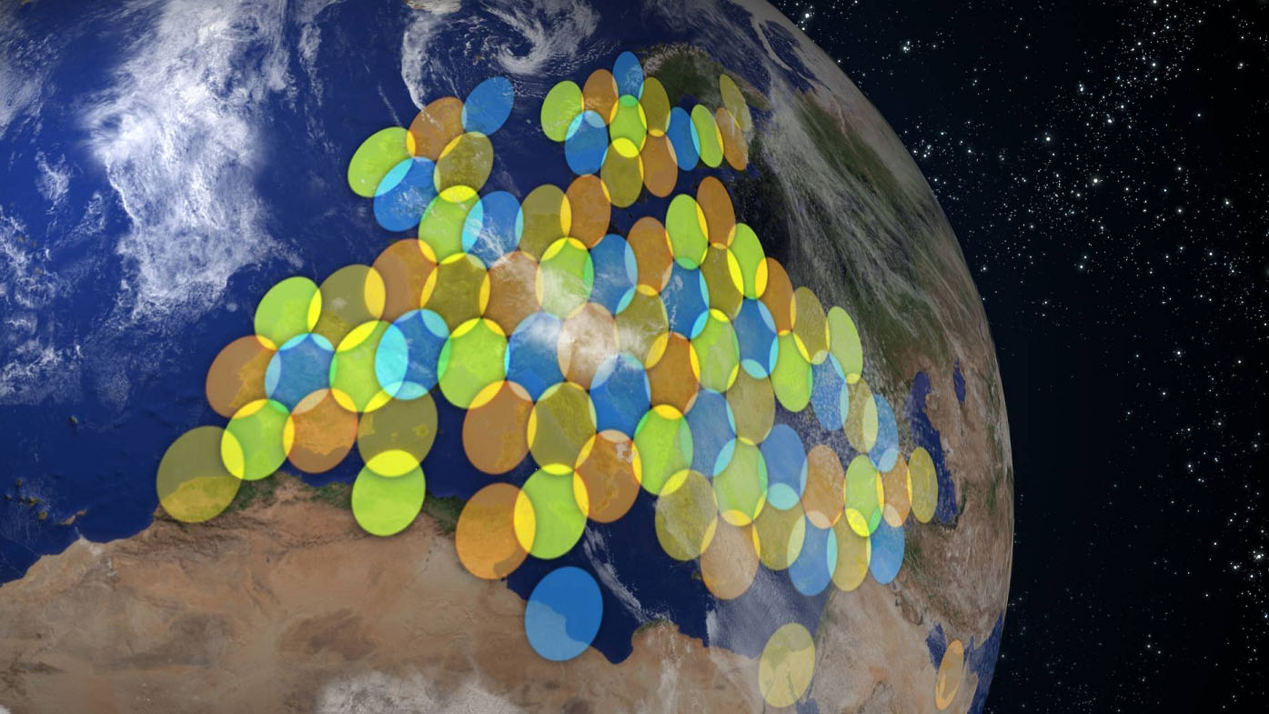 Eutelsat's KA-SAT satellite spot beams coverage over Europe and the Mediterranean Basin (different colors show frequency reuse)